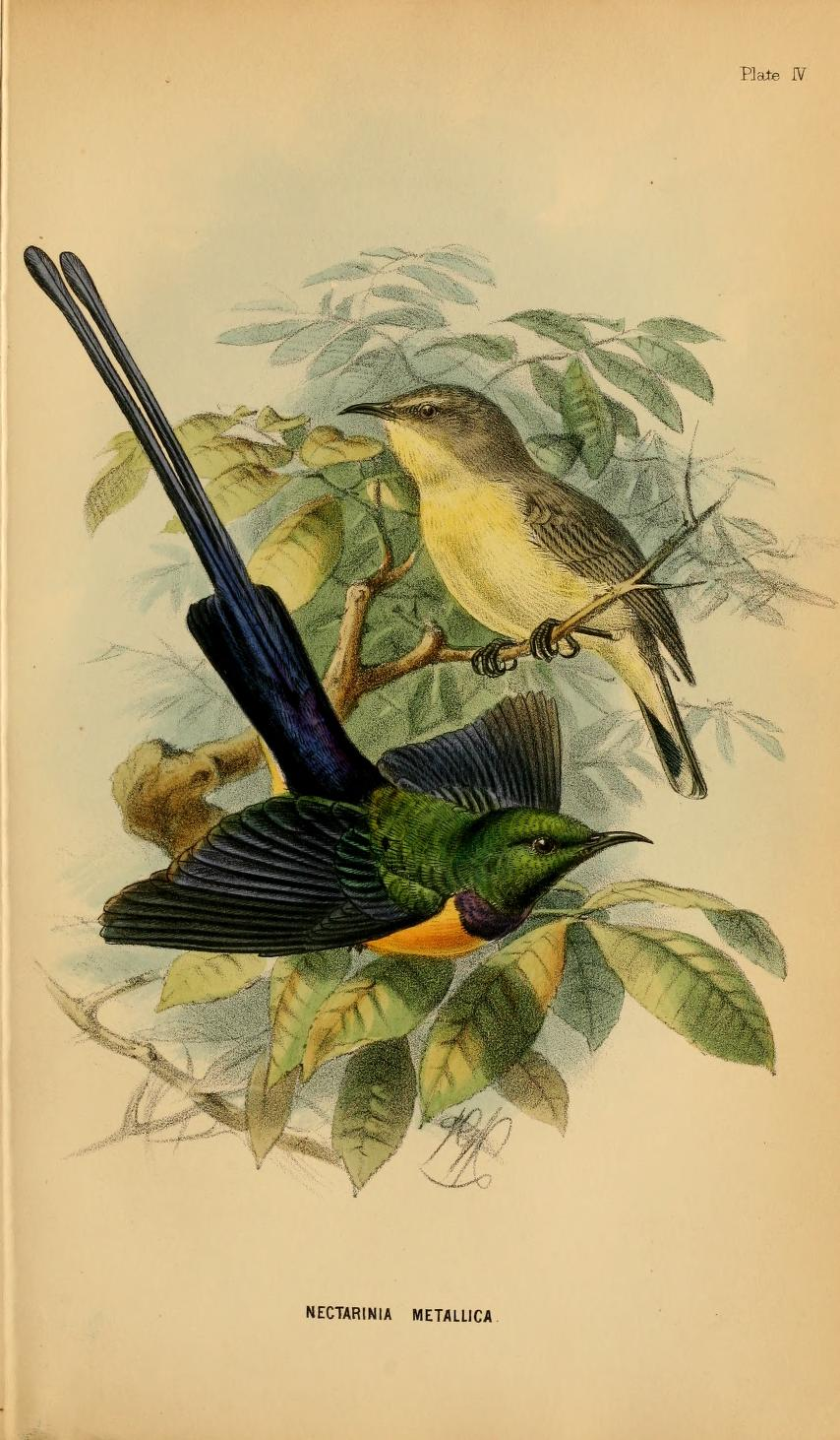 Plate from 1872 - Nile Valley Sunbird, Anthodiaeta metallica or Hedydipna metallica